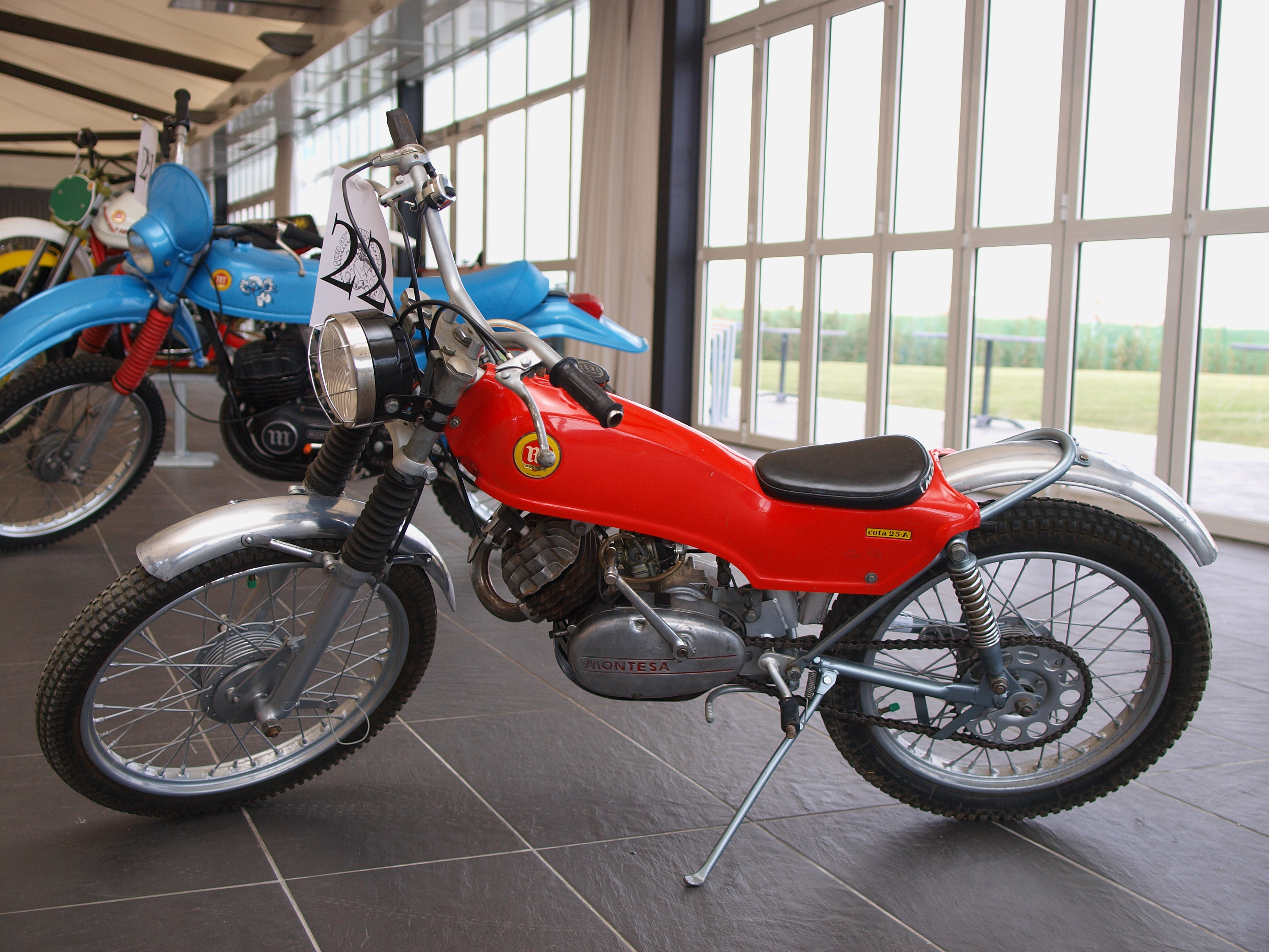 Montesa Cota 25A, a trial bike for kids, at exhibition in Zamora (Spain, 2012)